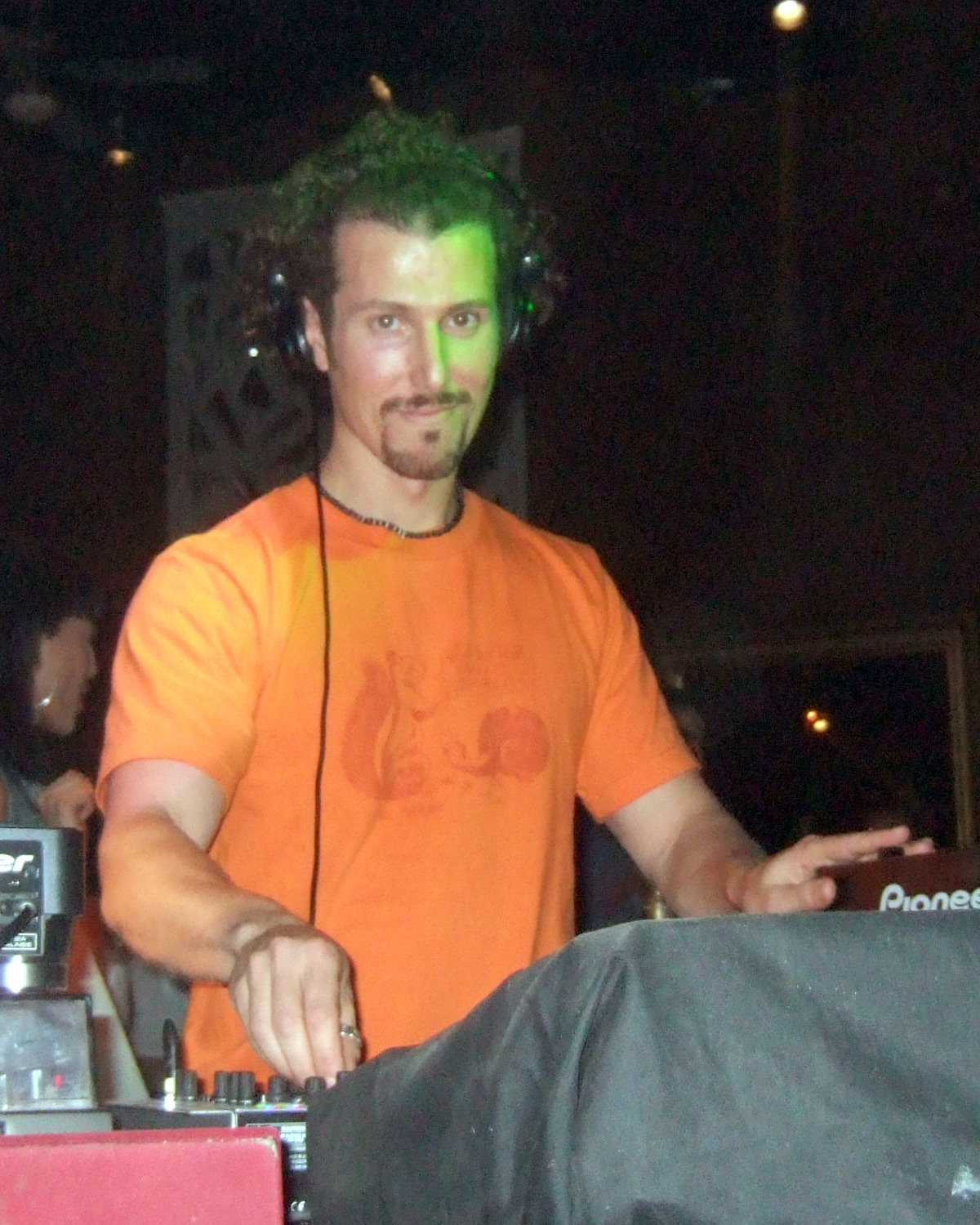 Josh Wink at work, 2006-02-10. Cropped and tweaked from original.